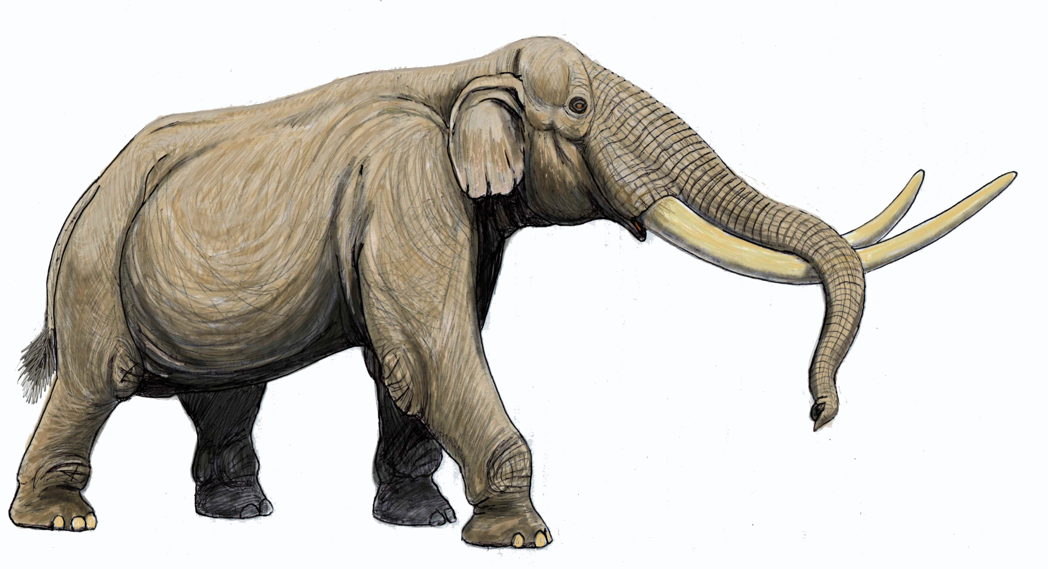 Stegodon ganesa, stegodont from Late Pliocene of Siwalik, India